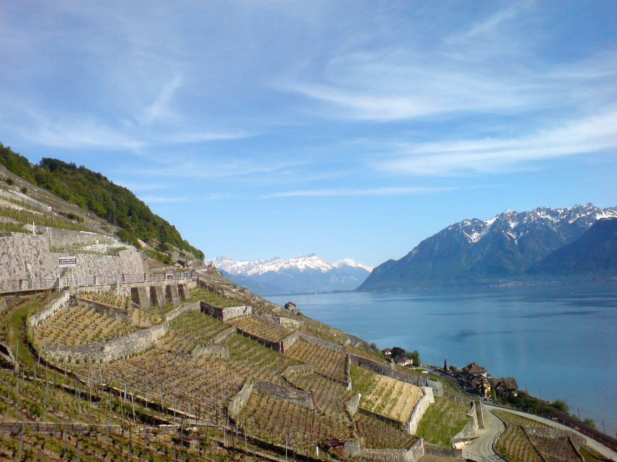 Lavaux Vineyards and lake Geneva, near Riex, Vaud. Mountains visible on the photo are (from left to right): Grand Muveran, 3051 m Dent Favre, 2919 m Dent de Morcles, 2969 m Grand Combin, 4314 m Le Gramont, 2172 m Cornettes de Bise, 2432 m